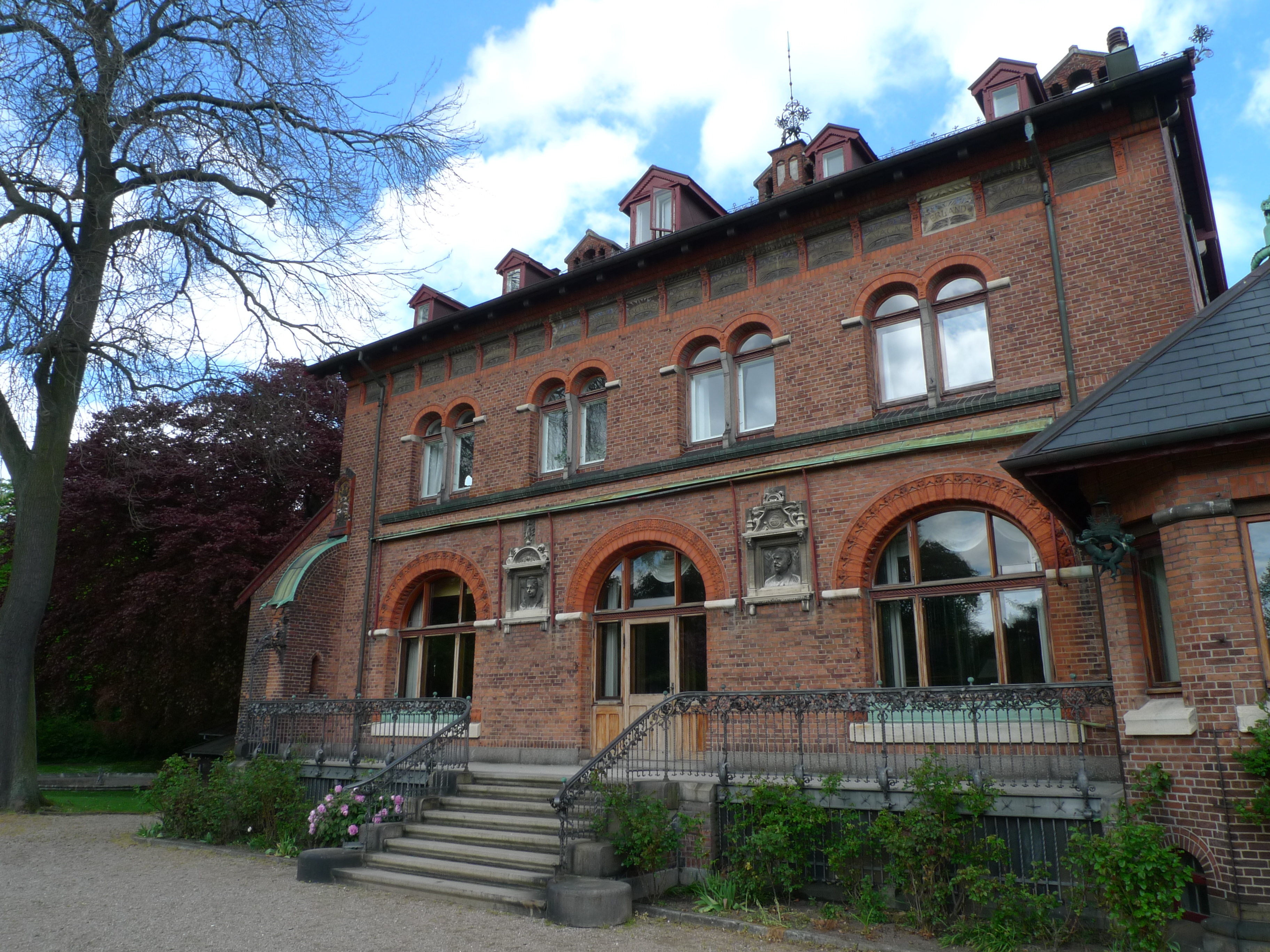 The Carl Jacobsen House in the Carlsberg area of Copenhagen, Denmark